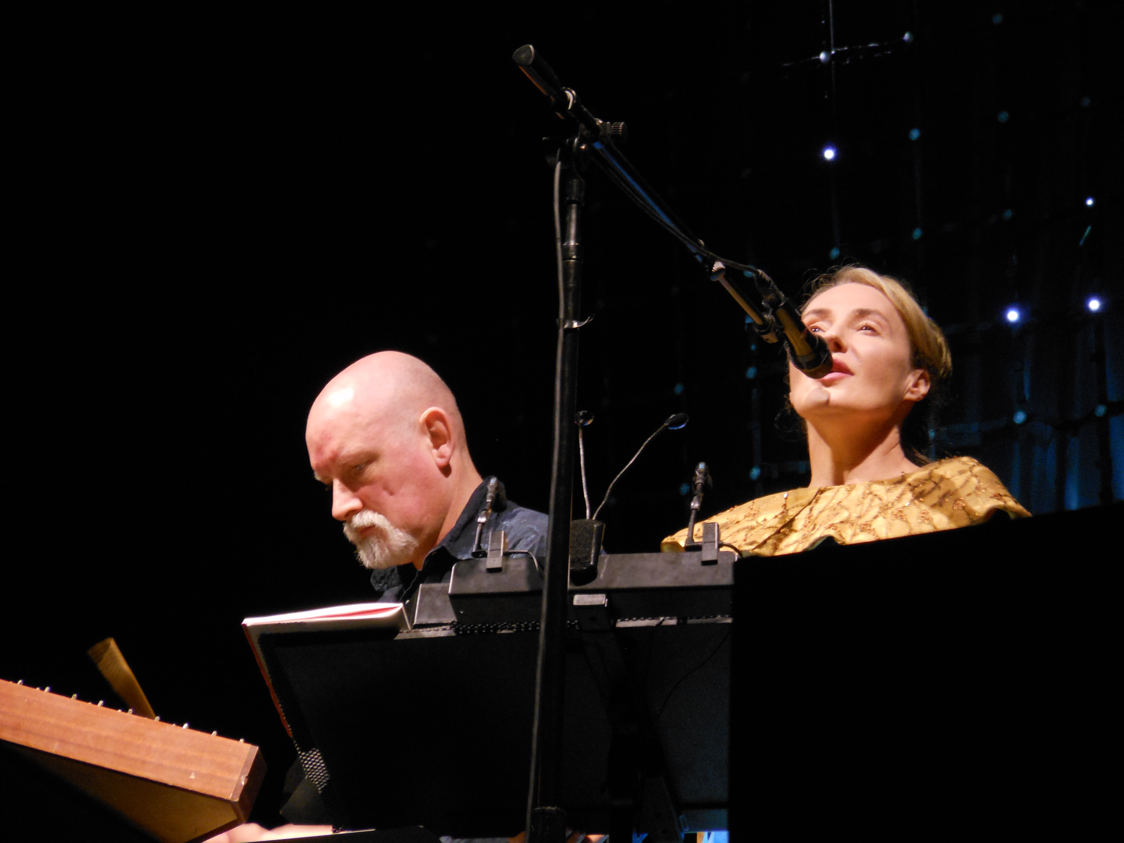 Dead Can Dance at Greek Theatre in Berkeley.